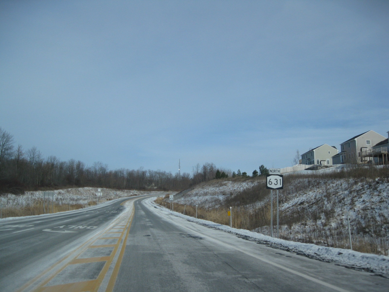 Heading northbound on New York State Route 631 from the route's current southern terminus at New York State Route 370 in the village of Baldwinsville.